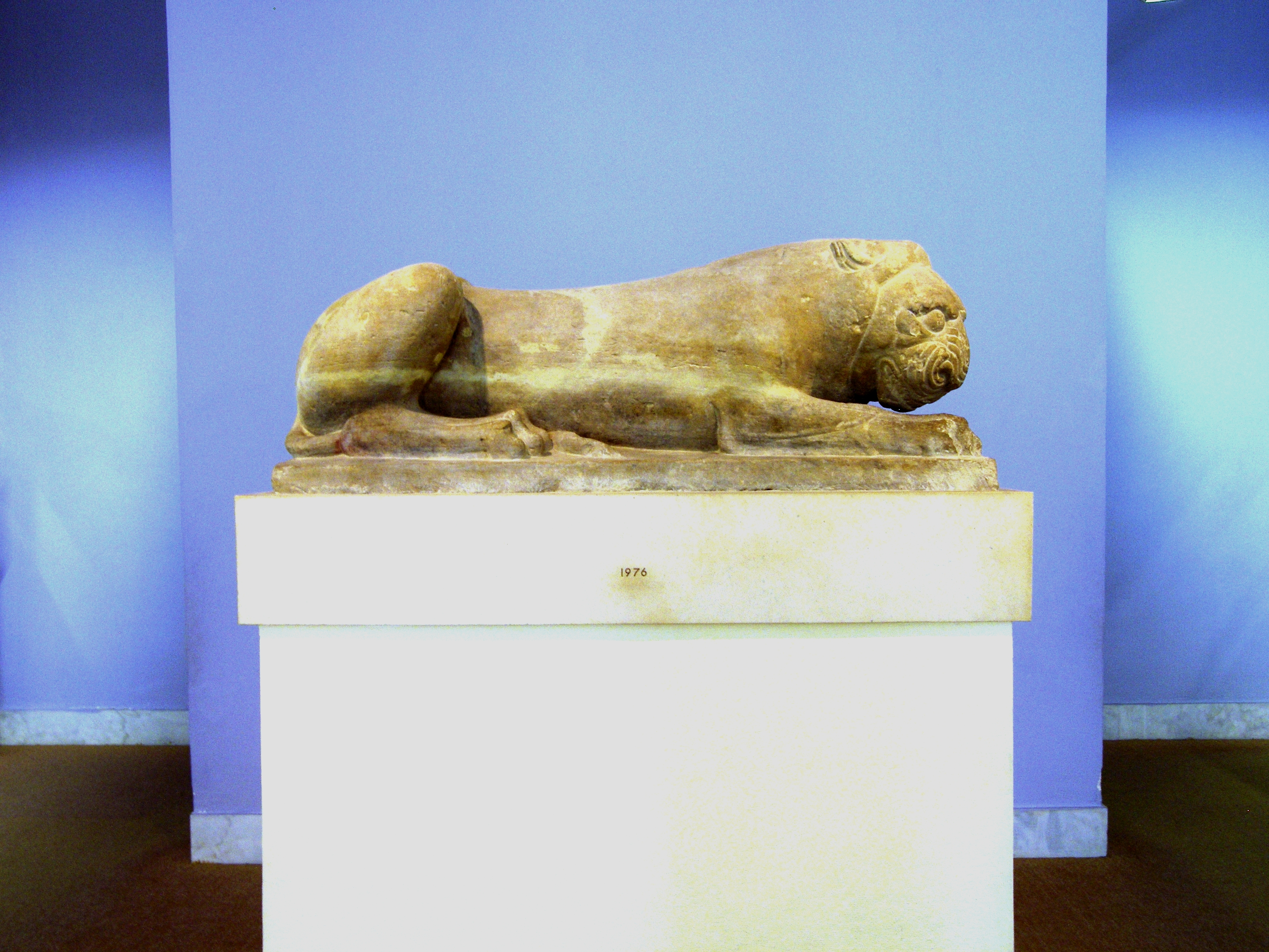 Lion of Menekrates at the Corfu Museum